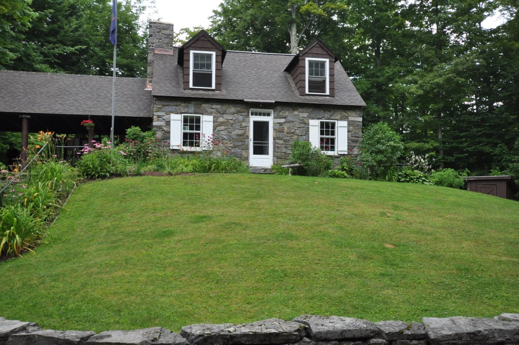 Gifford Woods State Park, Killington, Vermont. Ranger quarters.